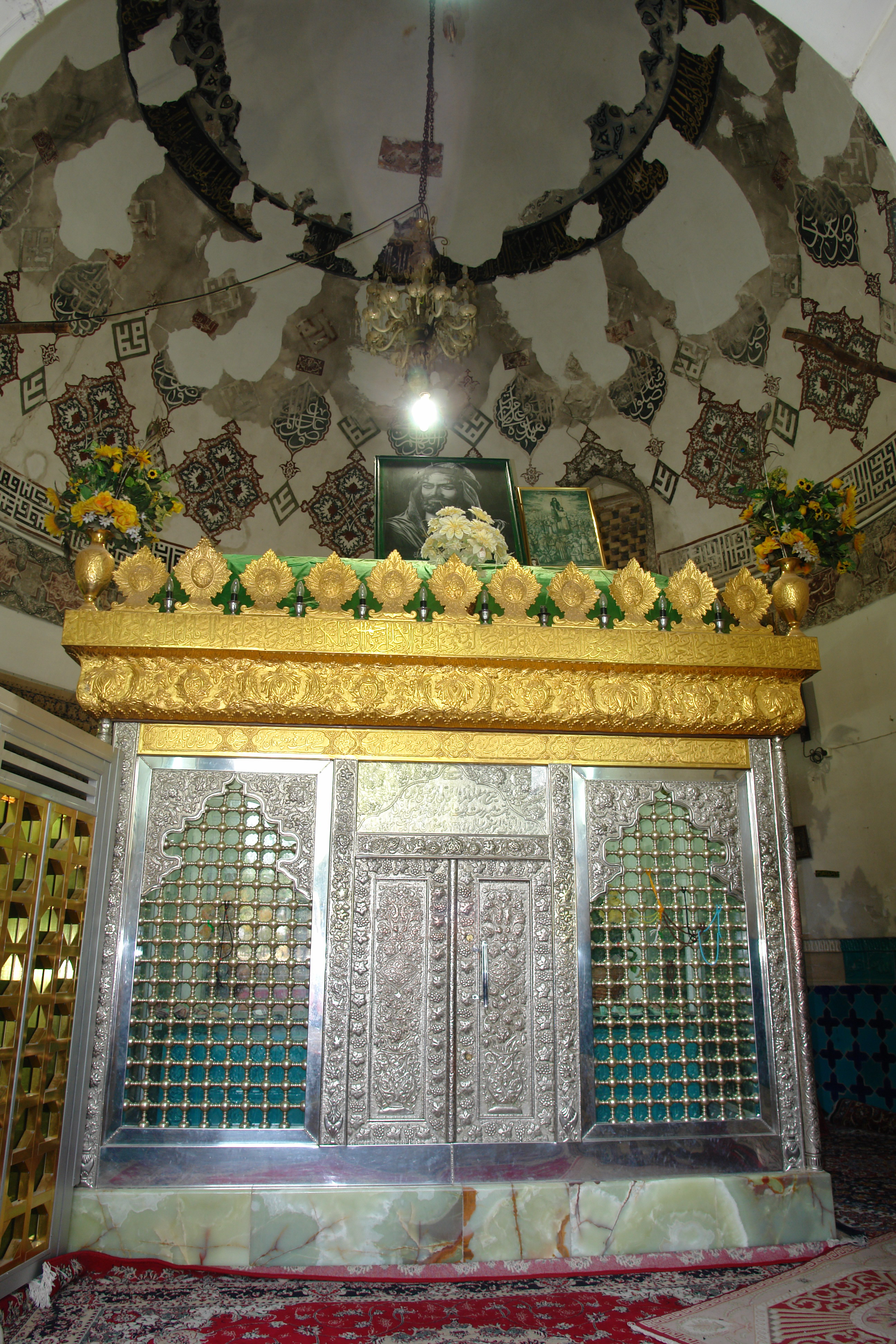 emamzadeh-seyedeshagh-saveh